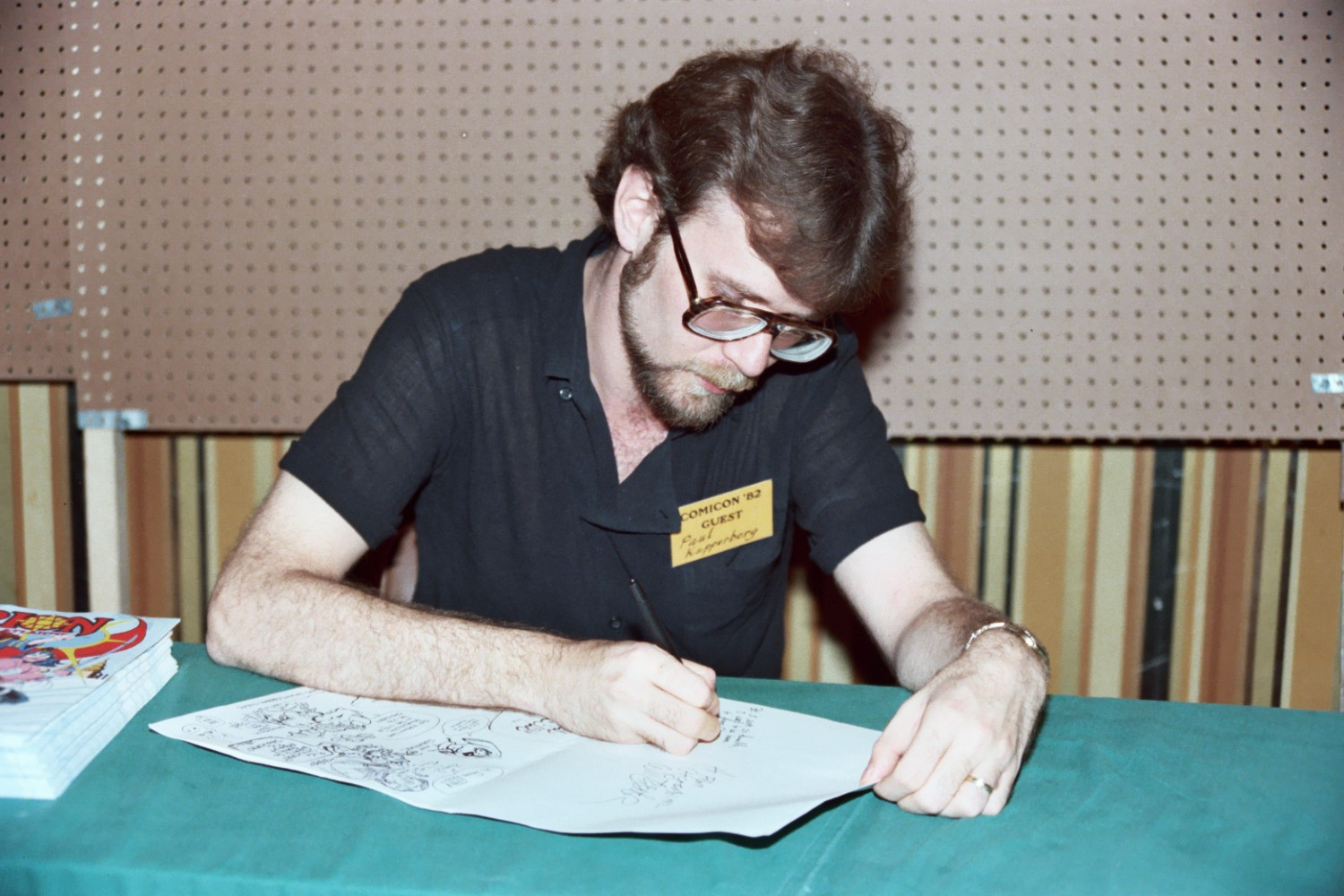 Taken at some 1982 comic book convention.